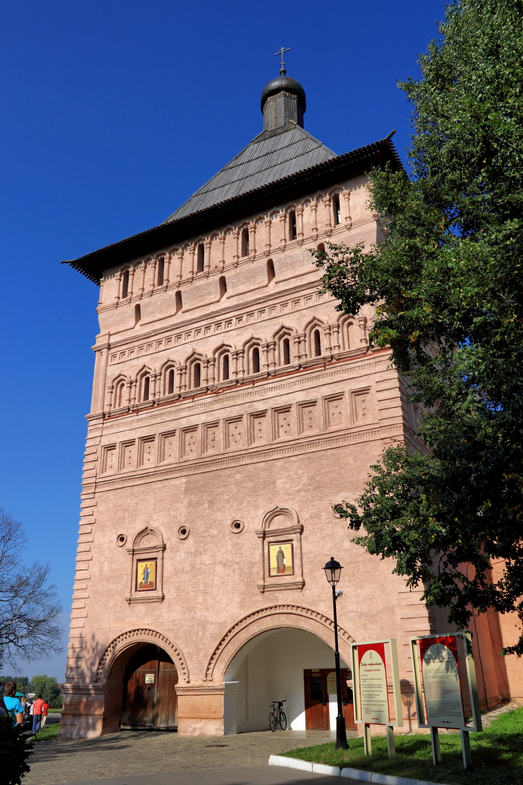 Suzdal. Monastery of Saint Euthymius. Main tower